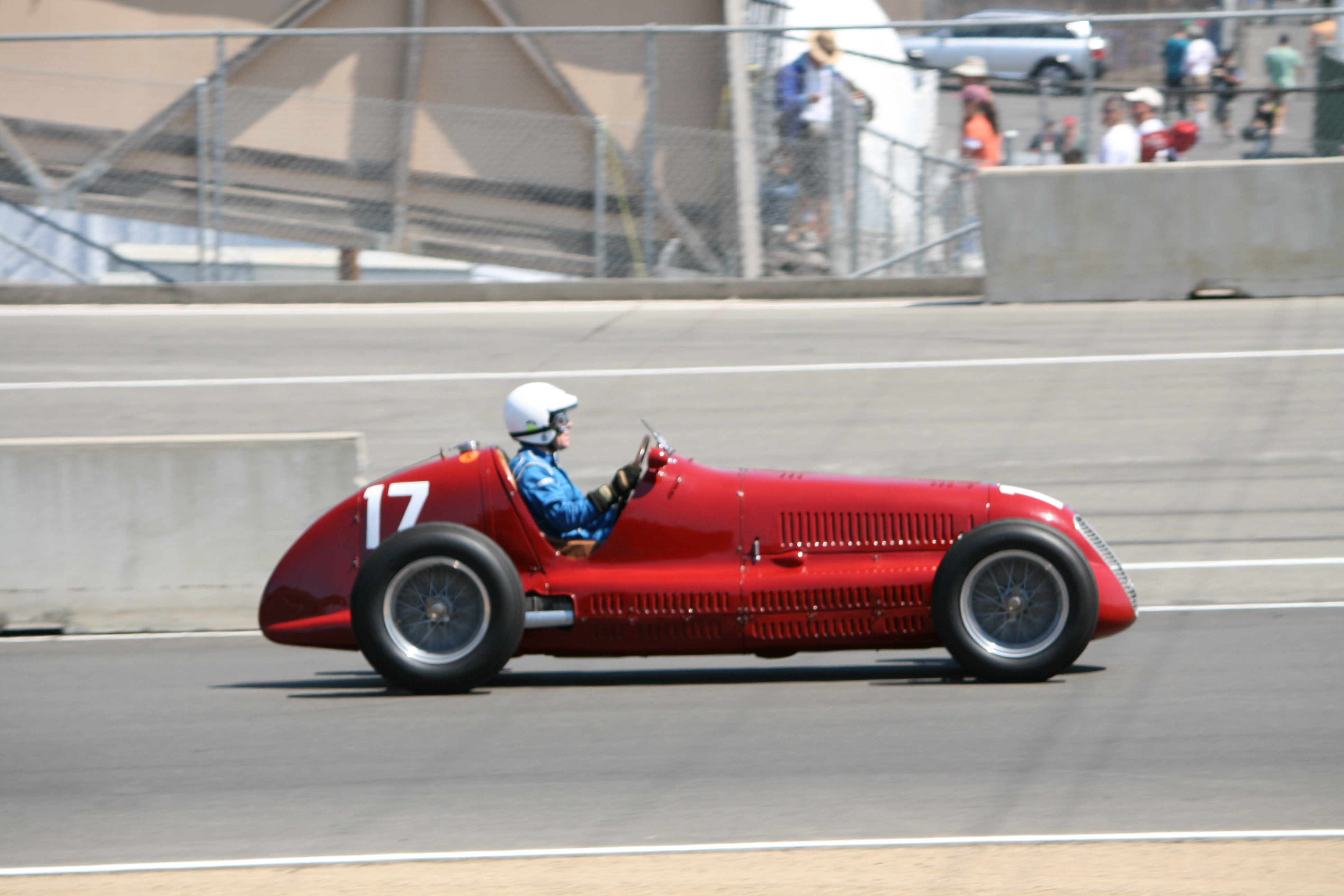 1939 Maserati 4CL at 2008 MOnterey